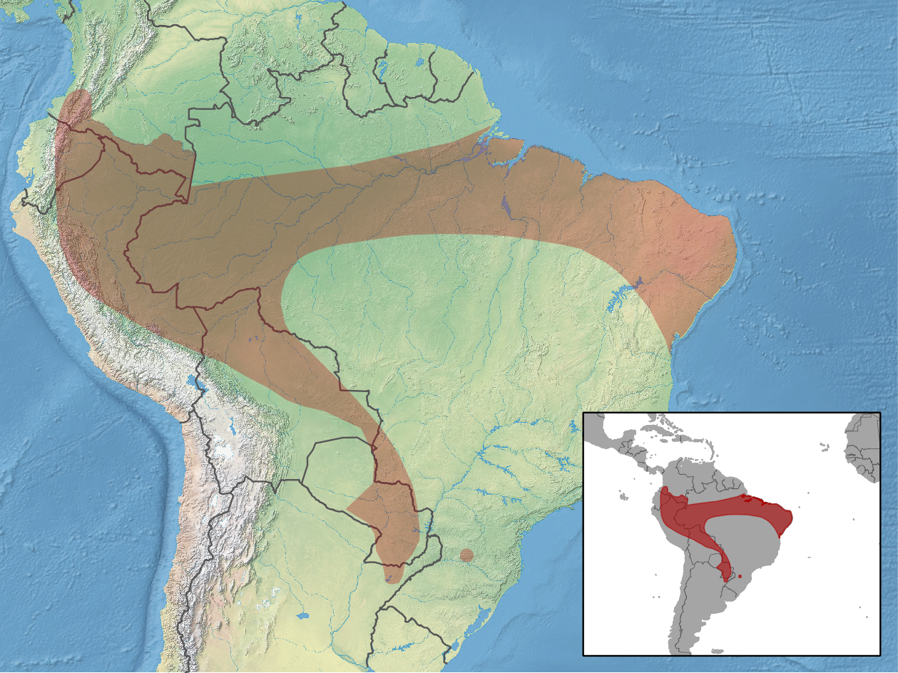 geographic distribution of Myotis simus